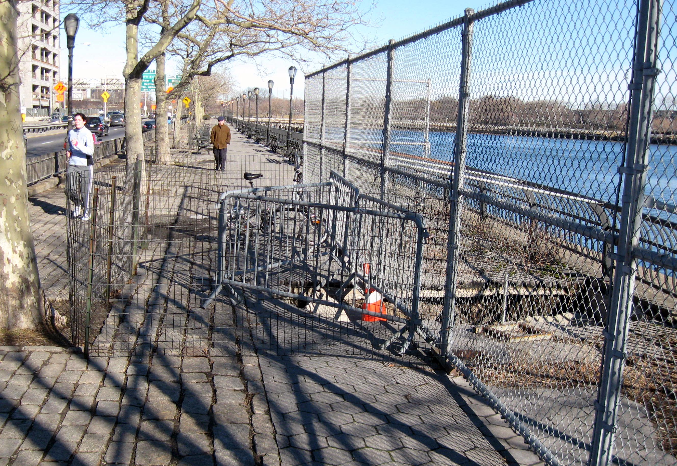 Looking northeast at sinkhole in the East River Greenway near 116th Street on a mostly sunny early afternoon